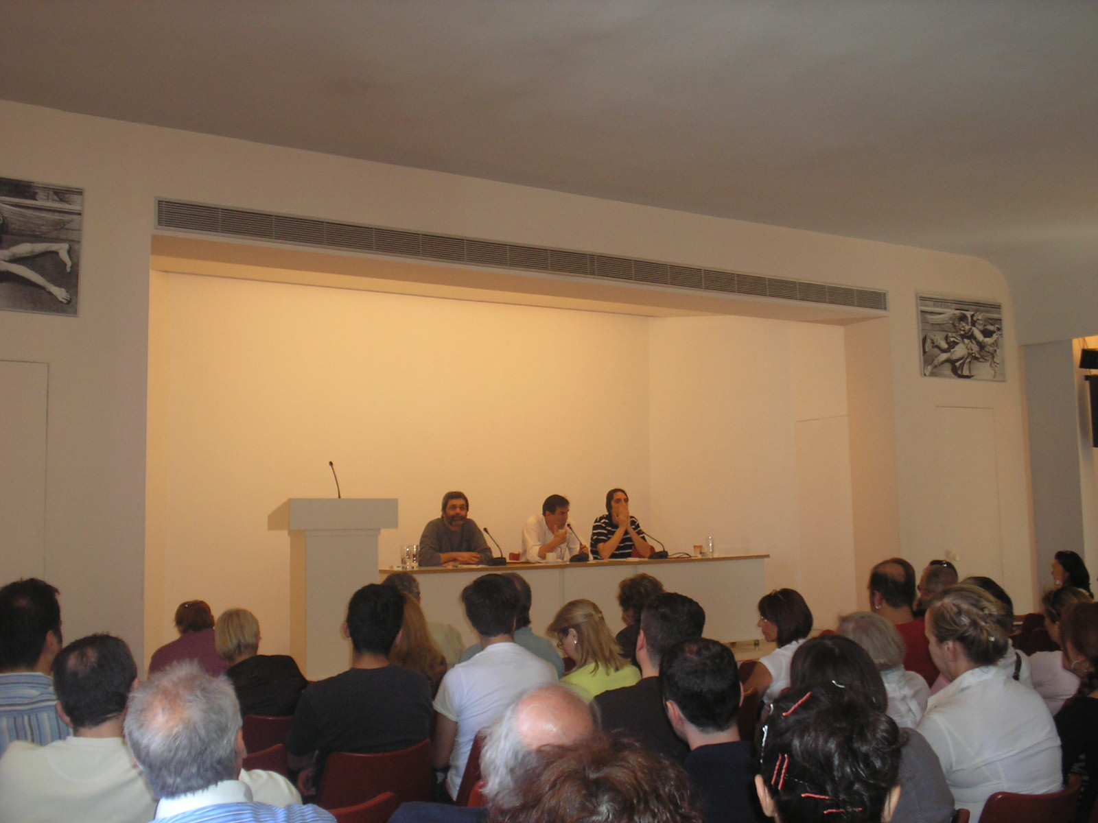 Yorgos Oikonomou (in the middle) at a symposium he organised in Athens (2010/05)